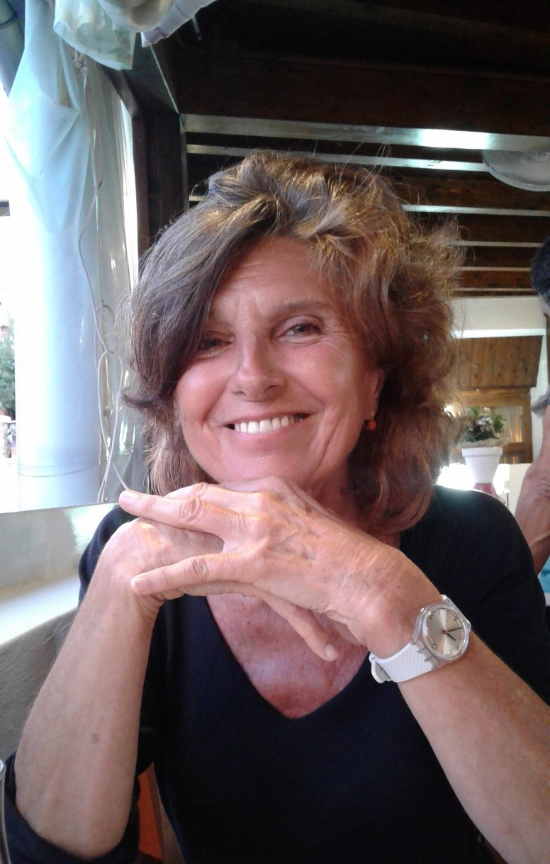 A photographic portrait of Carmen Leccardi, Italian sociologist.